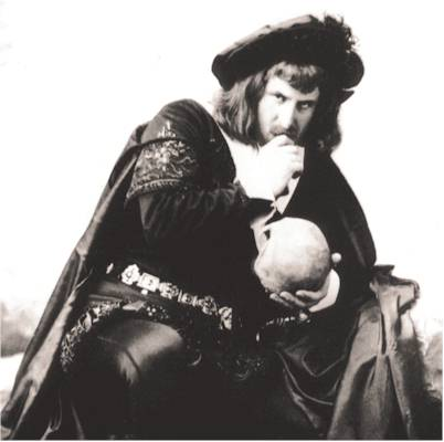 Photo of italian opera singer Mattia Battistini in opera "Hamlet" by Thomas